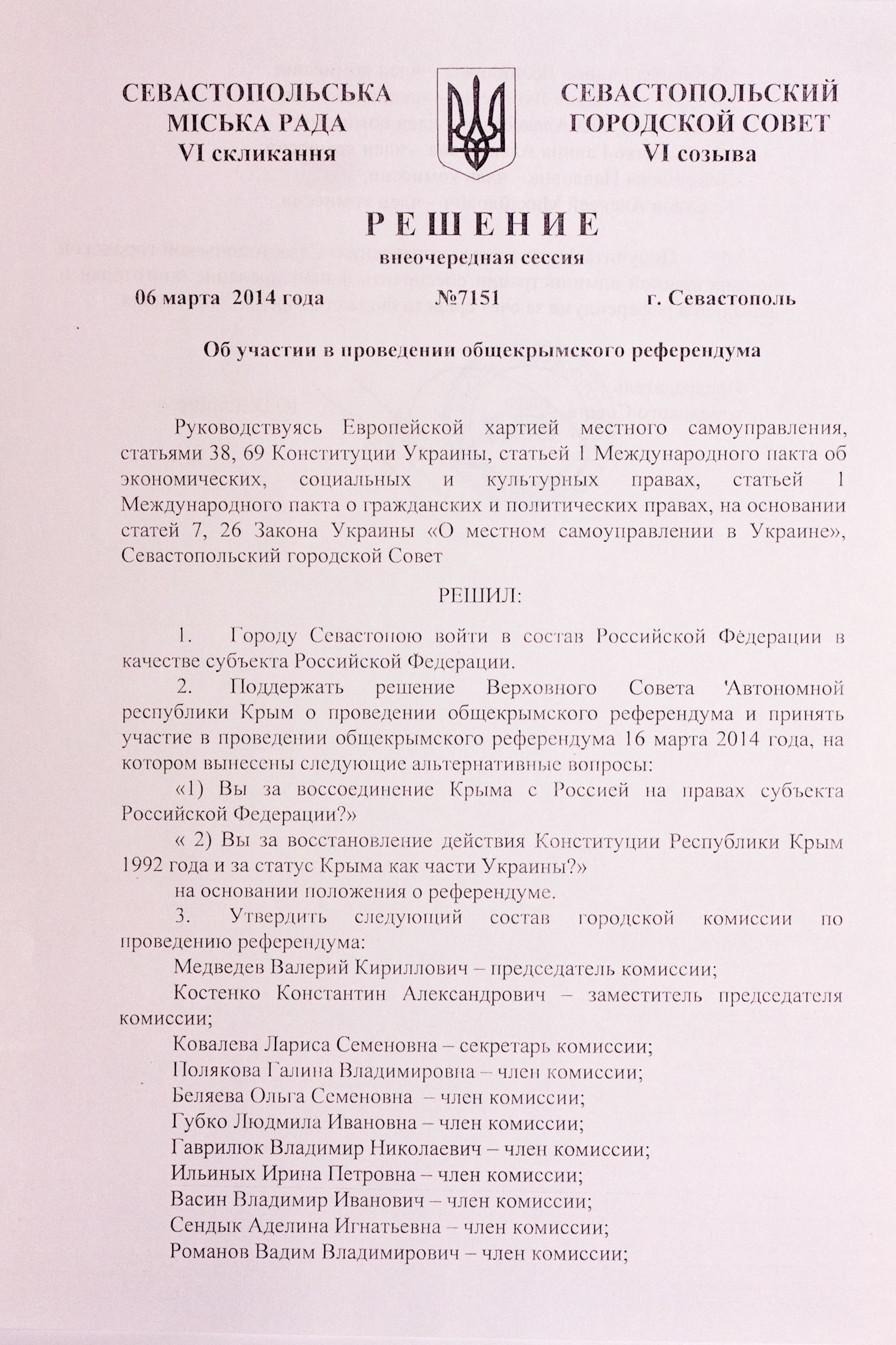 decision of Sevastopol city council about secession referendum